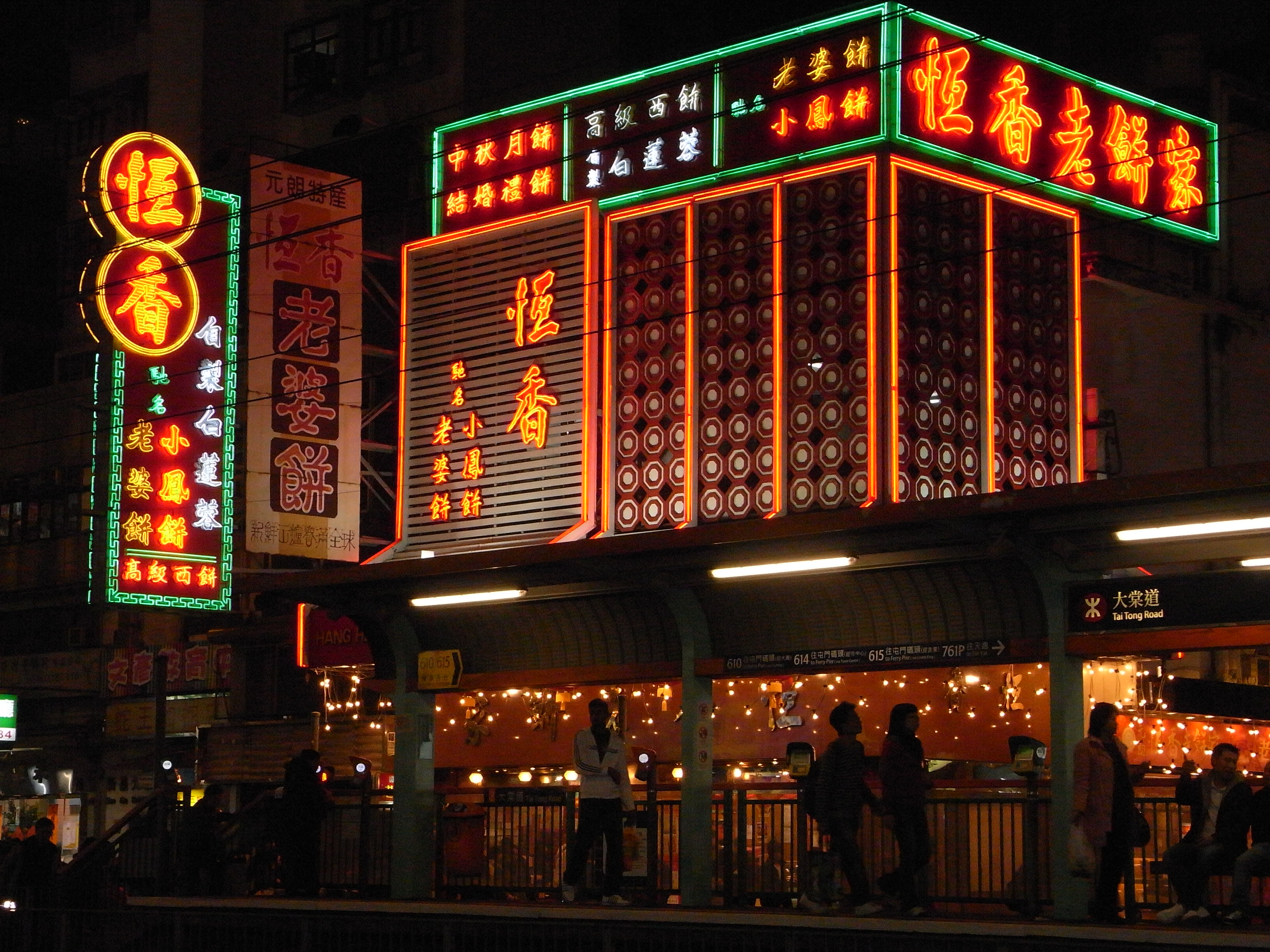 元朗 青山公路元朗段 恆香老餅家